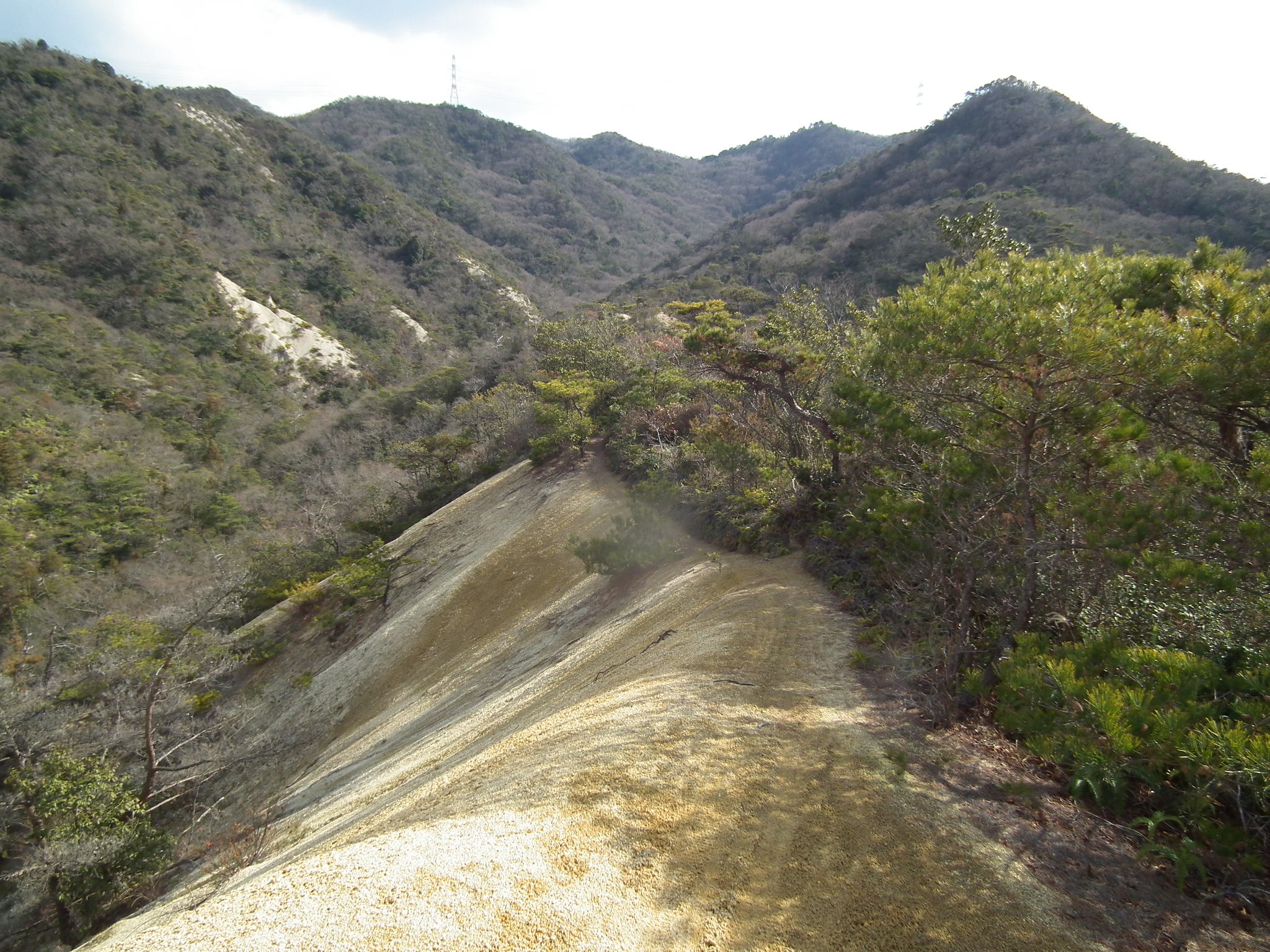 Mount Shibire seen from the NNW.